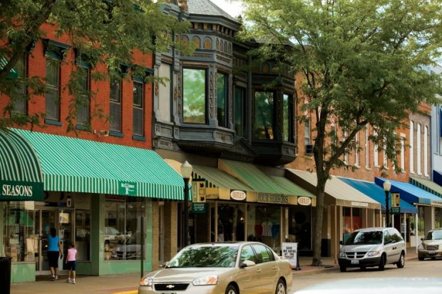 Photograph of the downtown area of Geneseo, Illinois in 2015.